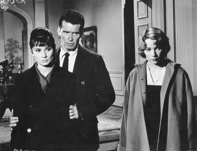 Audrey Hepburn, James Garner & Shirley MacLaine in American drama film The Children's Hour (1961). See also film still. No copyright notice.